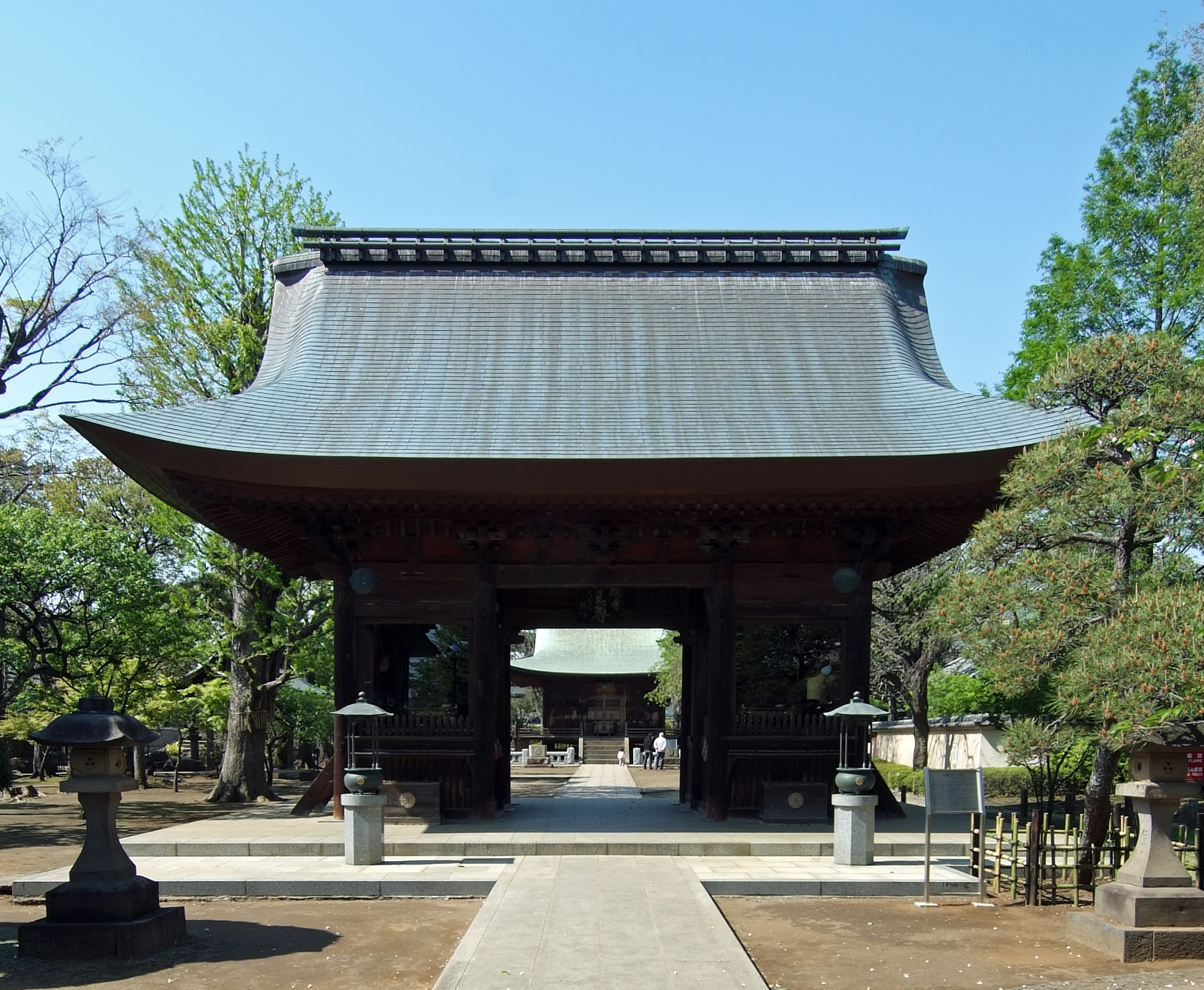 Nioumon of Enyuuji temple, at Meguro-ku Tokyo Japan.